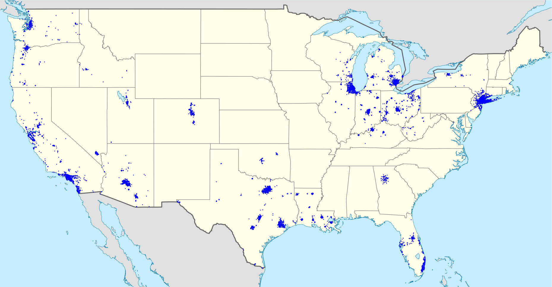 Footprint of JPMorgan Chase. Cities with more than one branch have progressively larger points.